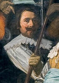 Portrait of Francois Woutersz in The officers and non-commissioned officers of the Saint George Civic guard in Haarlem in 1639, detail